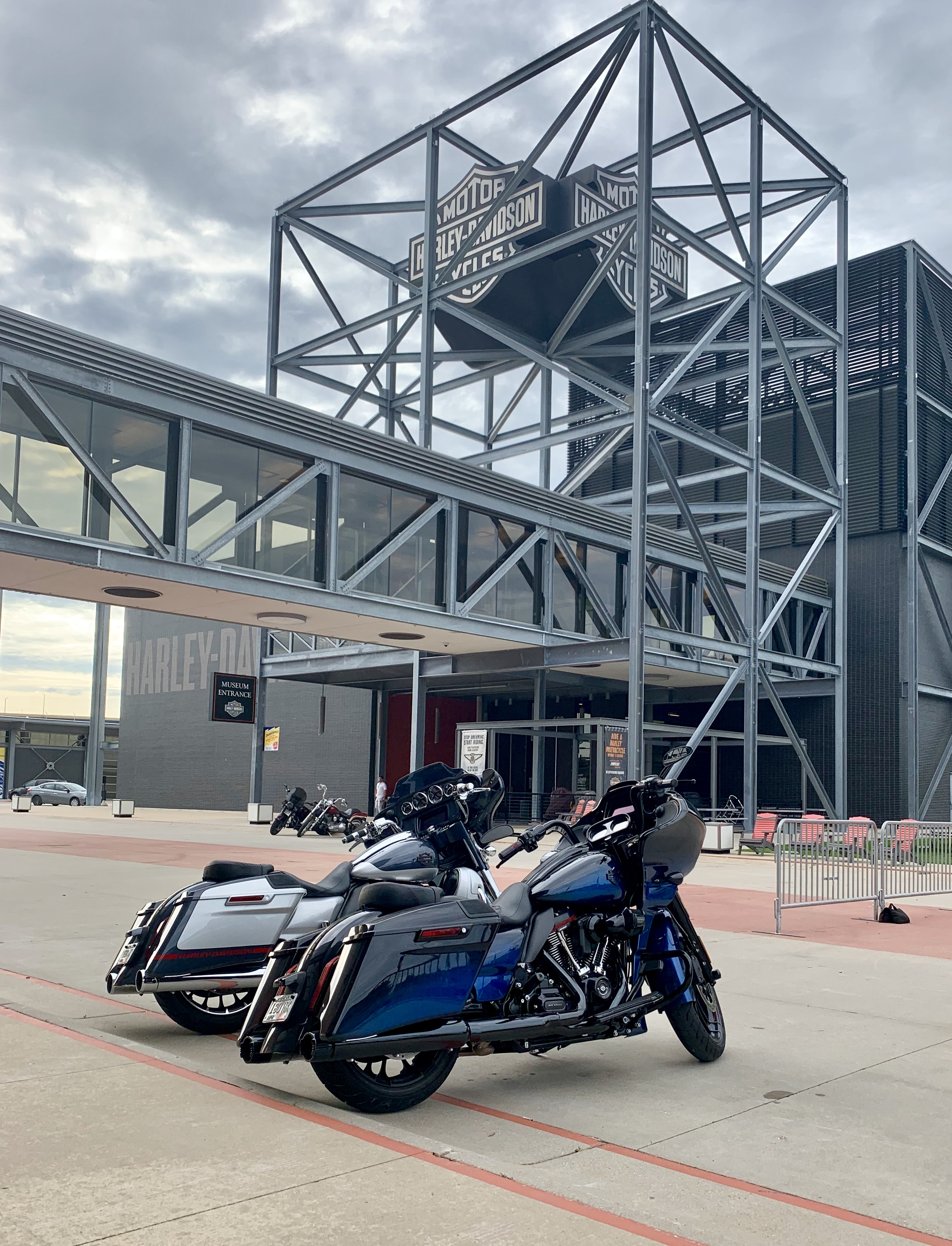 Harley Davidson Museum with two 2019 Harley Davidson CVOs parked